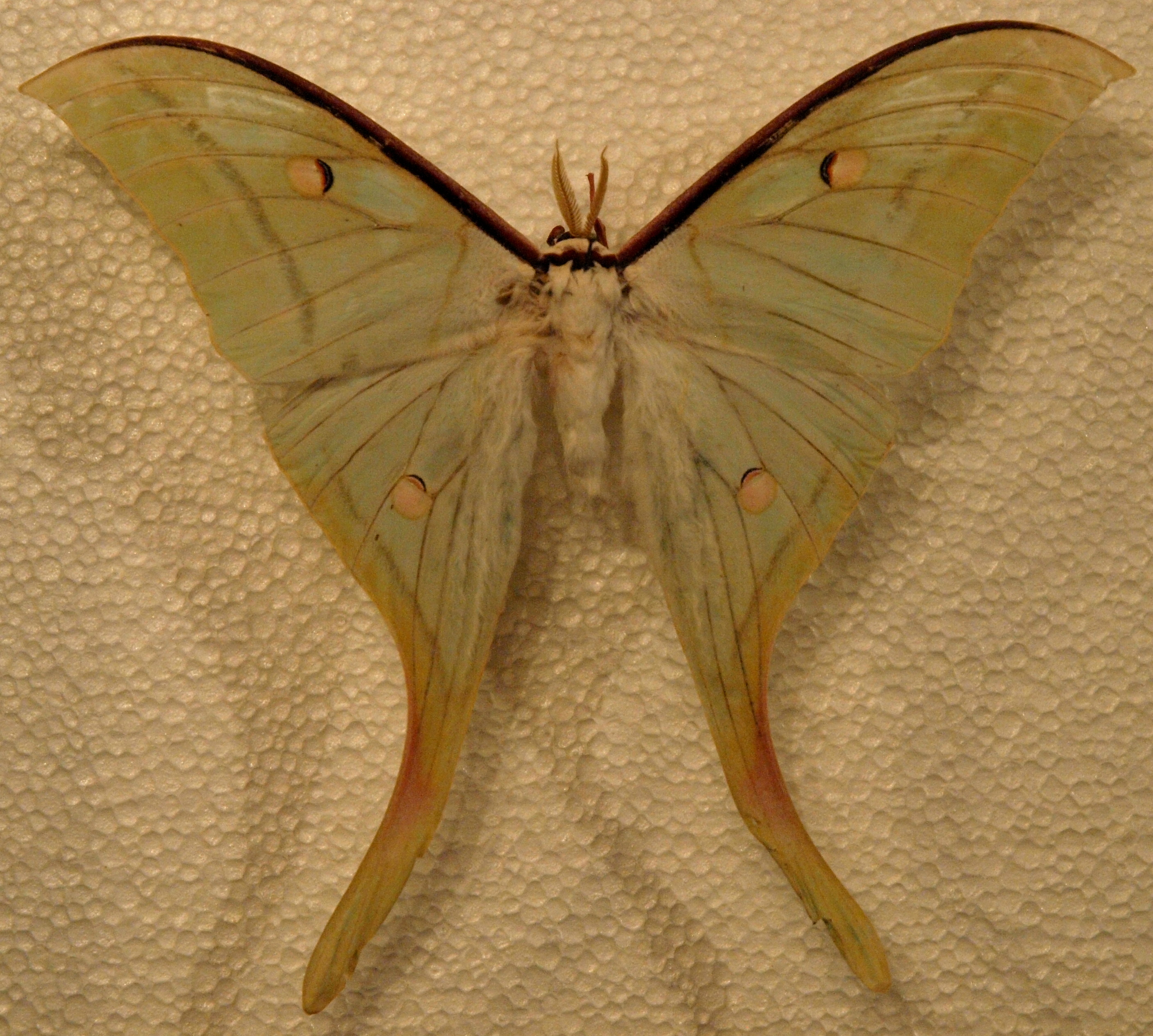 Actias selene, male. Source: own collection